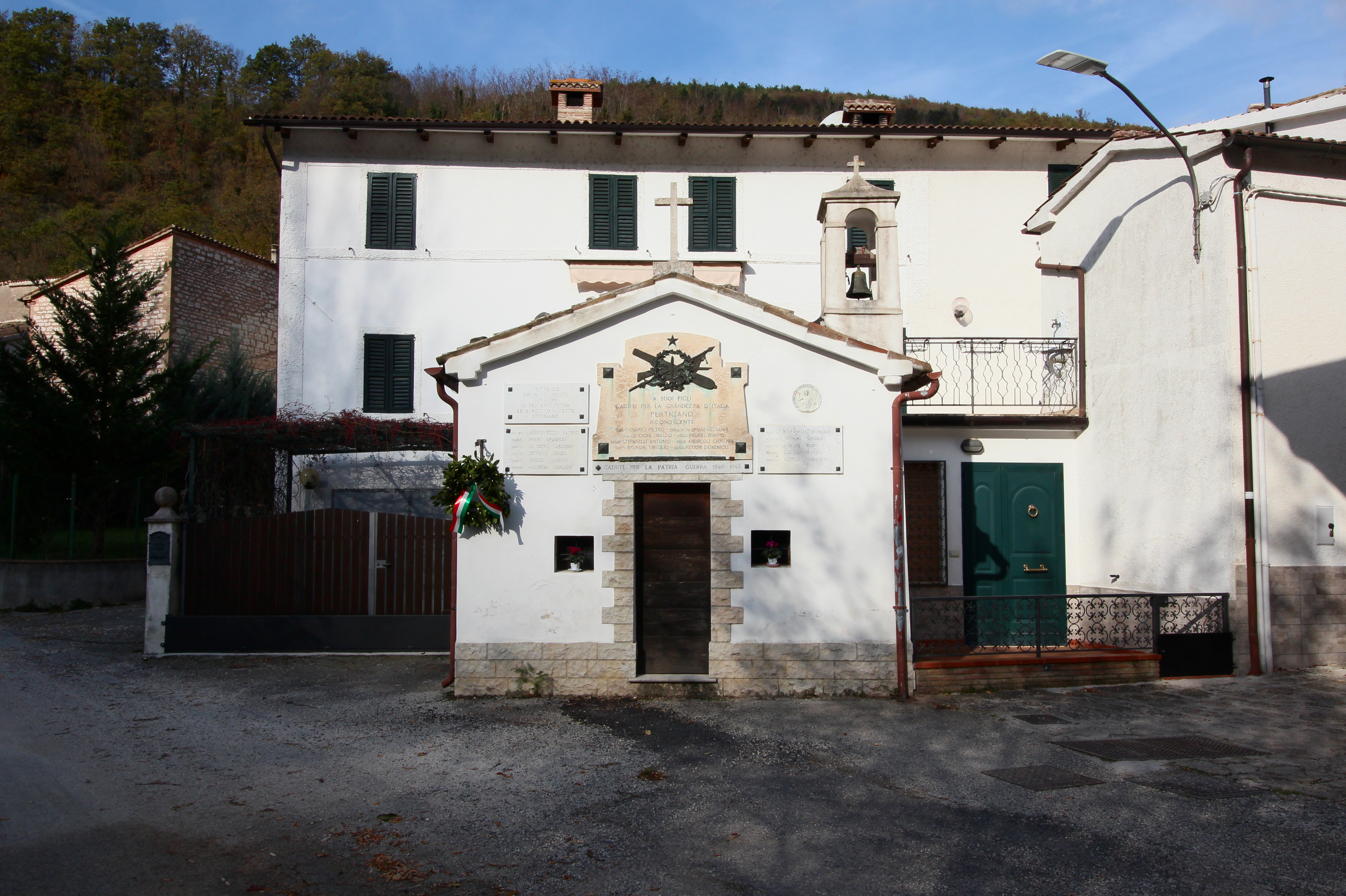 church Madonnella, Perticano, hamlet of Scheggia e Pascelupo (Province of Perugia, Umbria) and Sassoferrato (Province of Ancona, Marche), Italy. The church is located in the area of Scheggia e Pascelupo